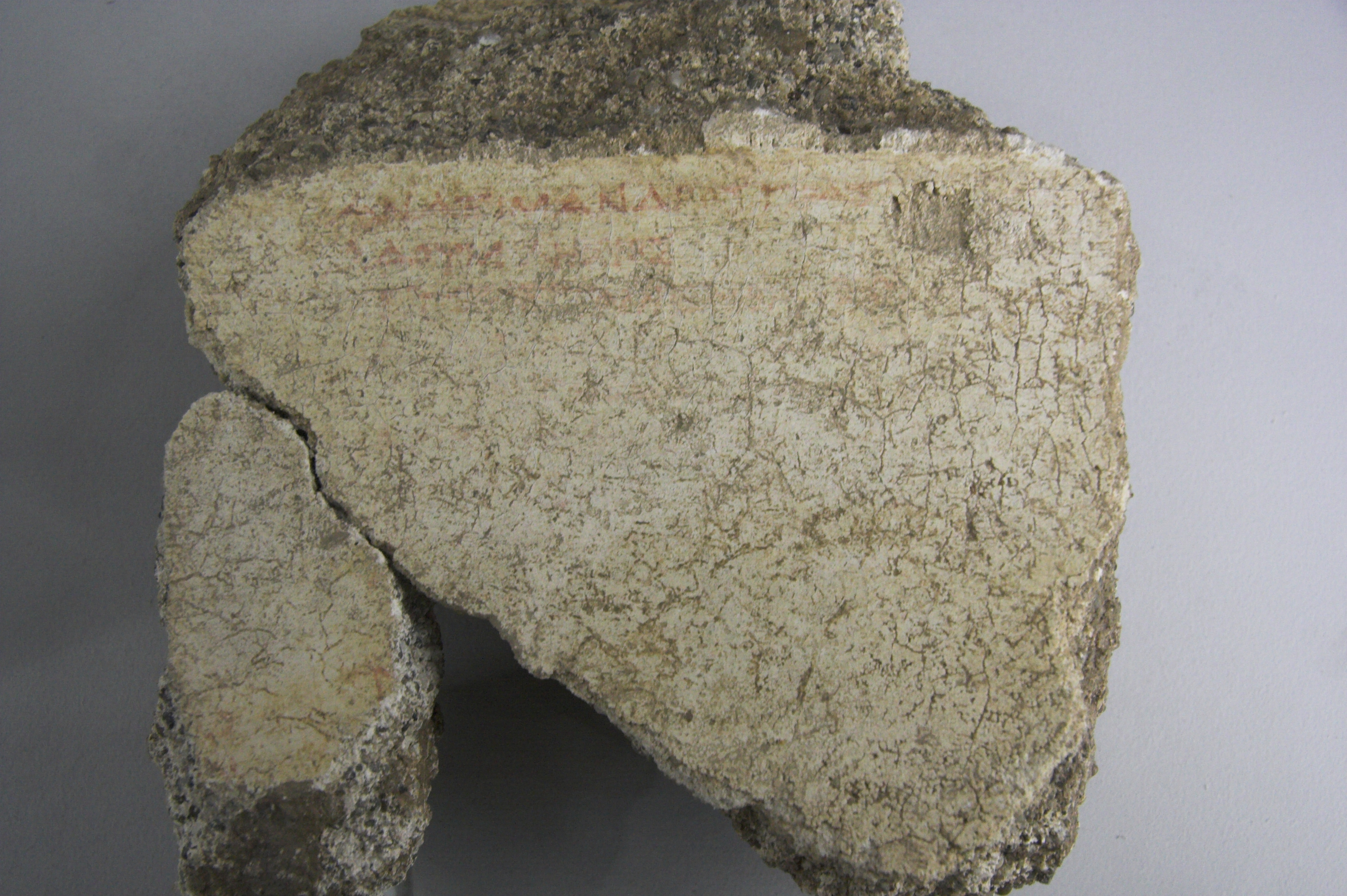 Anaximander's work was in Sicily known even in hellistic time! Fragment from the library catalog of the gymnasion of the Hellenistic period the name Anaximadros. Found in 1969 in the cistern next to hotel The Bristol Park. Lapidary and epigraphická collection of Greek theater in Taormina.